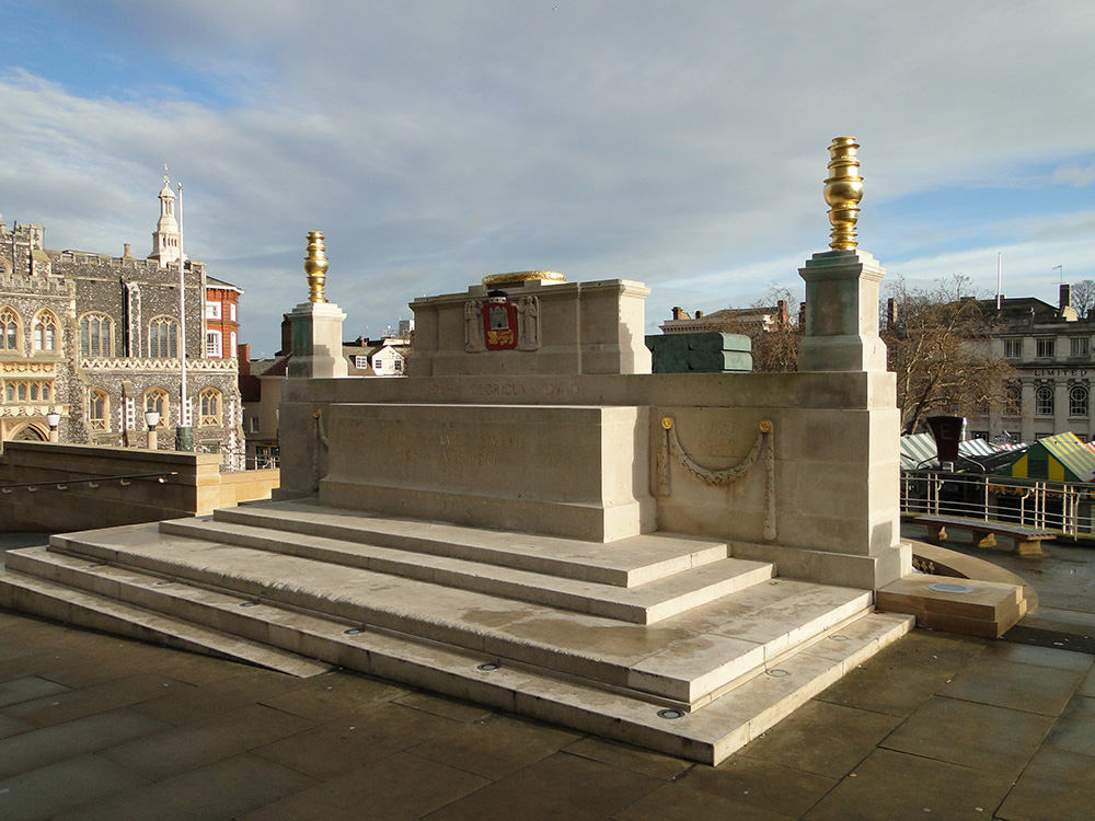 The War Memorial outside Norwich City Hall